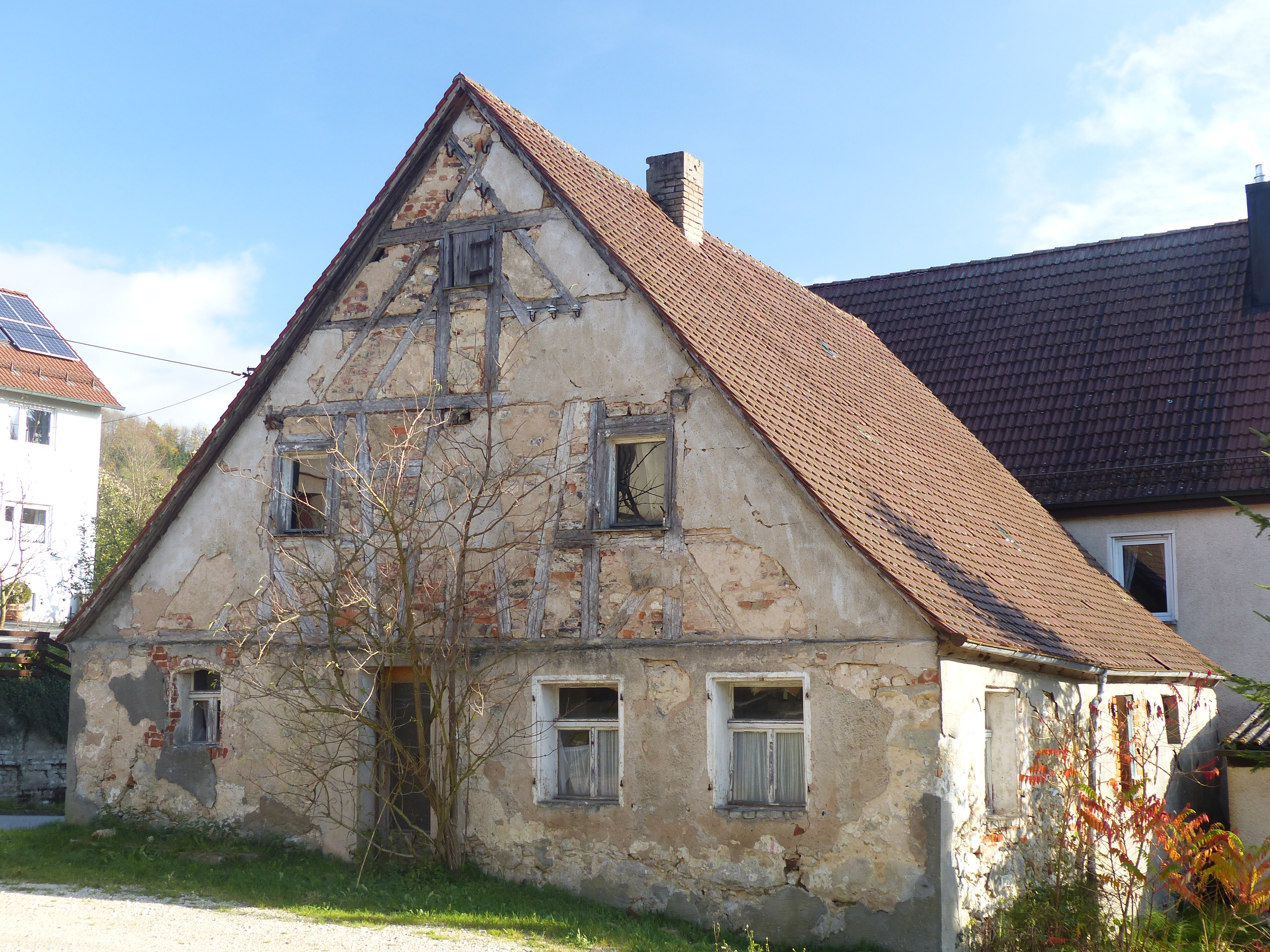 Former byre-dwelling in the village of Siegersdorf, a part of the municipality of Schnaittach